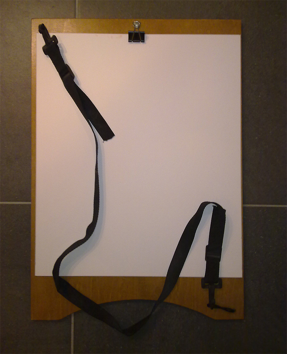 Commercial mobile drawing board for artists (belly board)